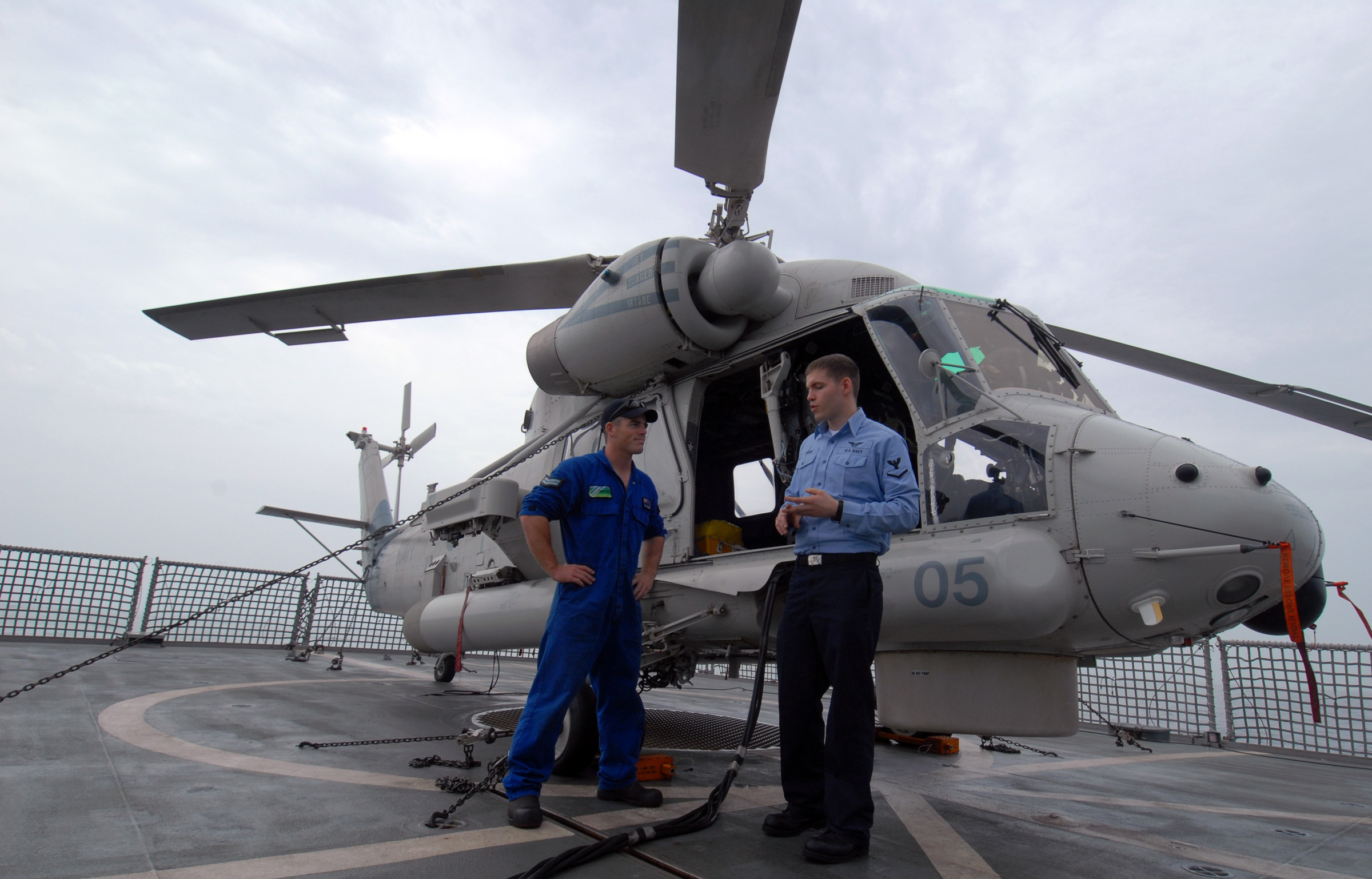 U.S. Navy Aviation Structural Mechanic 3rd Class Kyle Geiger, right, assigned to the "Sun Kings" of airborne early warning squadron VAW-116, talks with Royal New Zealand Air Force's Corporal Avionics Technician 2 Loic Ifrah aboard the Royal New Zealand Navy frigate HMNZS Te Mana (F111) while under way in the Arabian Sea on 30 July 2008. The ship was conducting a sailor exchange with the Nimitz-class aircraft carrier USS Abraham Lincoln (CVN-72), which was deployed to the U.S. 5th Fleet area of operations in support of operations "Iraqi Freedom" and "Enduring Freedom".